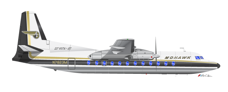 A rendition of Mohawk Airlines Fairchild-Hiller FH-227B "City of Glens Falls" circa 1970. Released to PD by author user:Grunherz